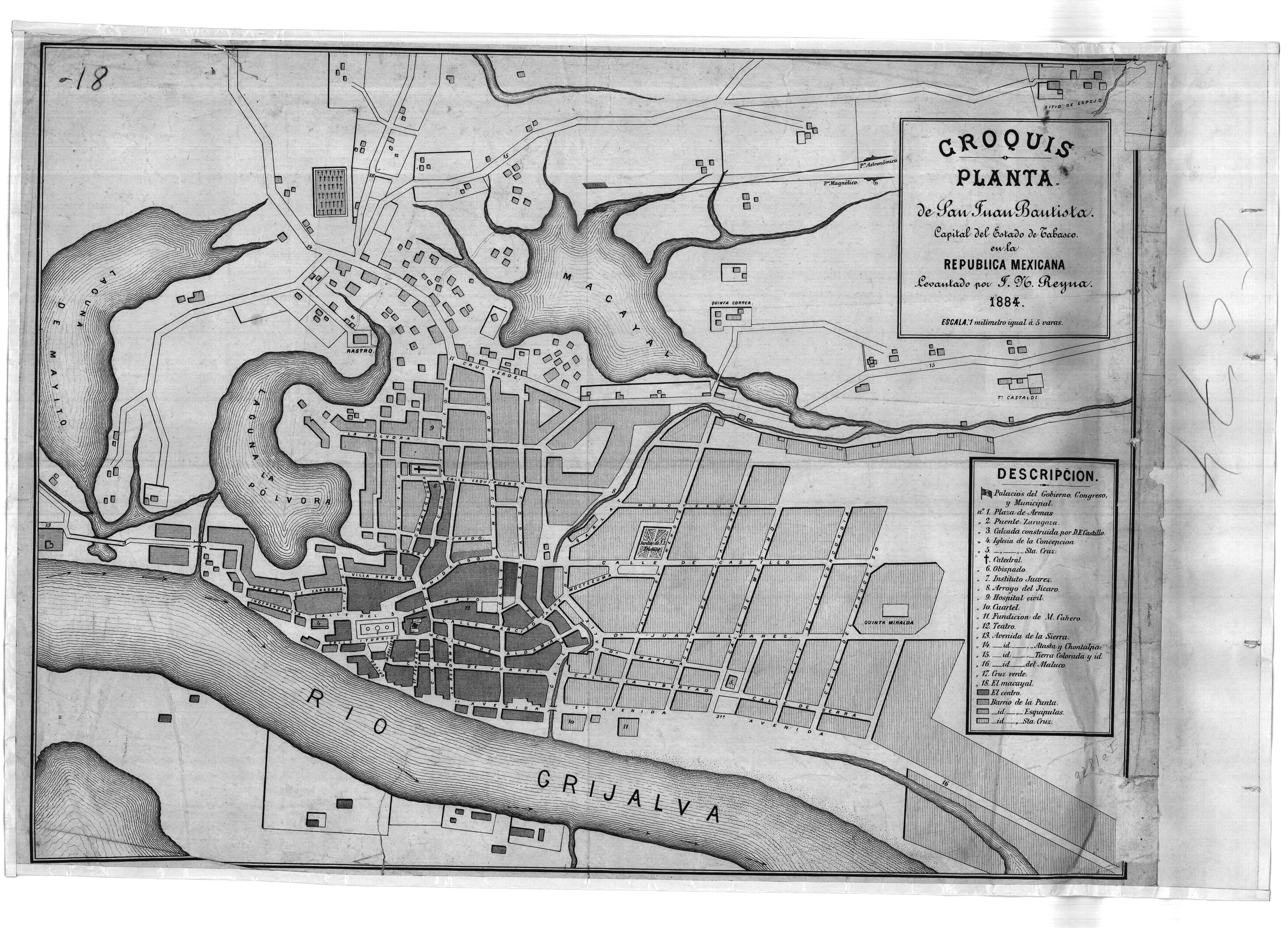 Sketch map of San Juan Bautista, Capital of the state of Tabasco by Juan N. Reyna, 1884